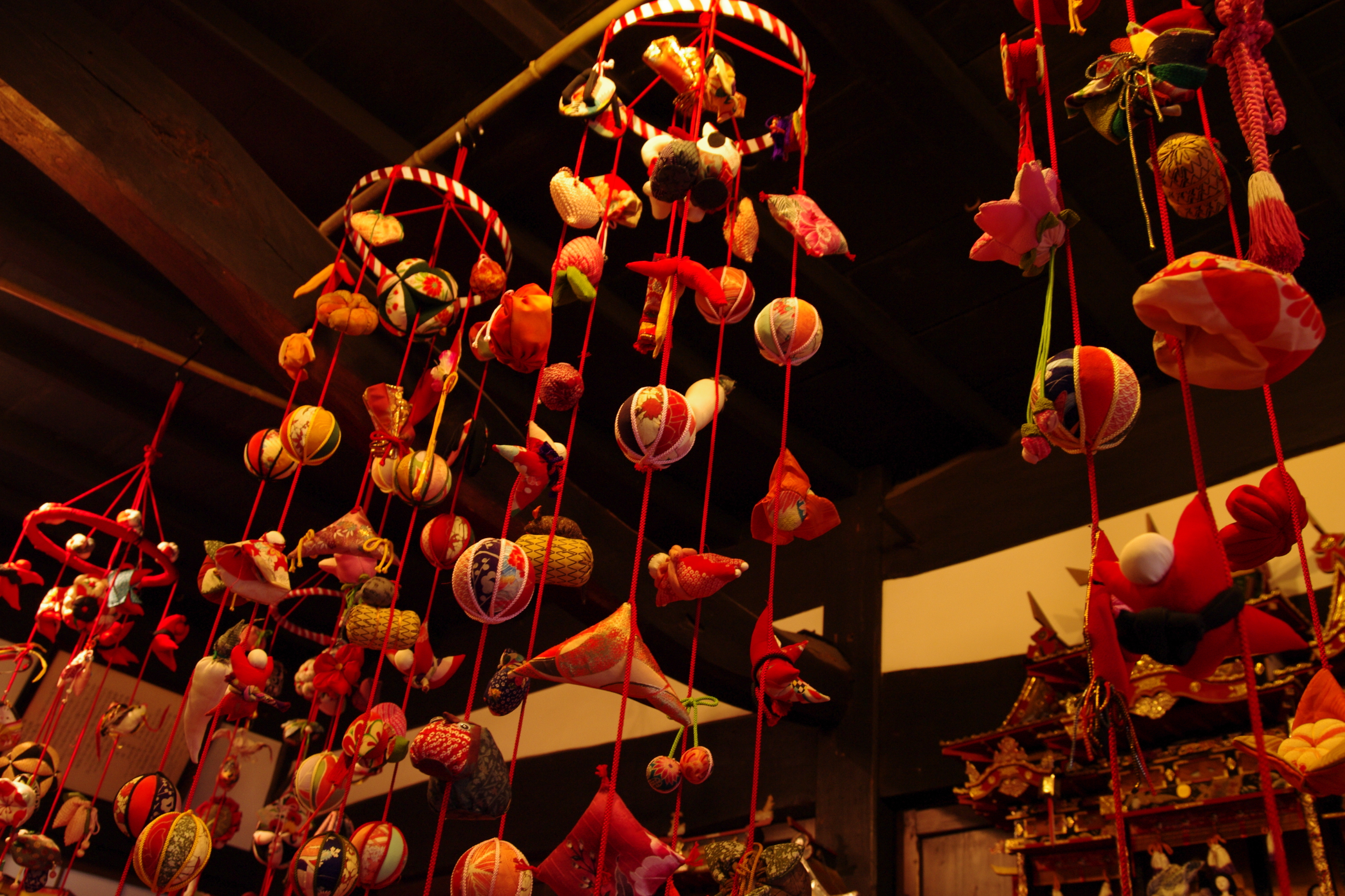 Tsurushibina,is a variation of traditional Hina-Ningyou dolls in Japan. Koshu City, Yamanashi Prefecture.